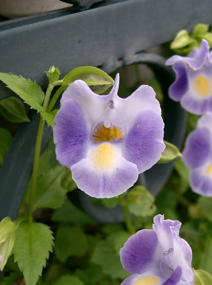 Torenia fournieri